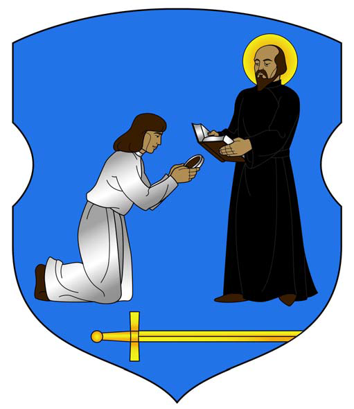 Coat of arms of Žyrovičy